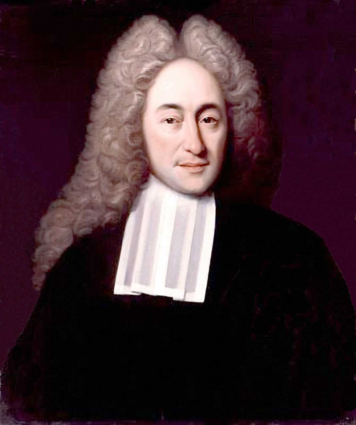 Karl Andreas Duker (1660 - 1752) Historian from Germany